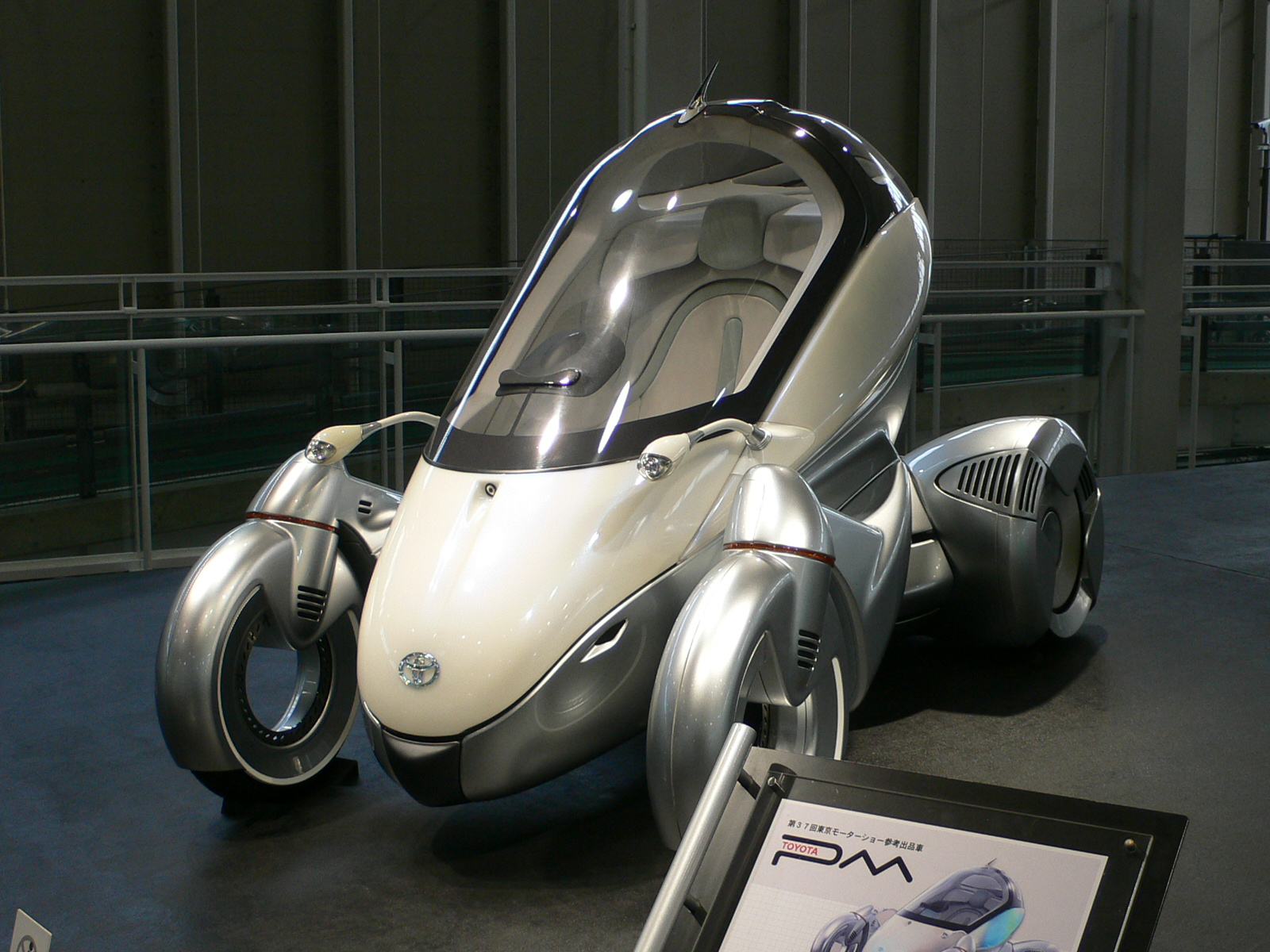 Toyota PM(2003) photographed in MEGAWEB.